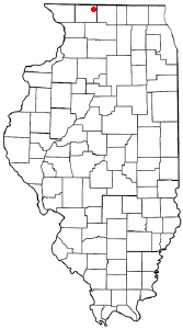 Category:Illinois city locator maps